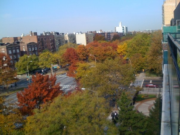 Ocean Parkway from above, in the fall, looking toward Manhattan, from a building near Ditmas Avenue.